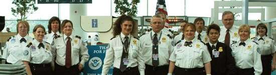 Transportation Security Administration officers (USA)